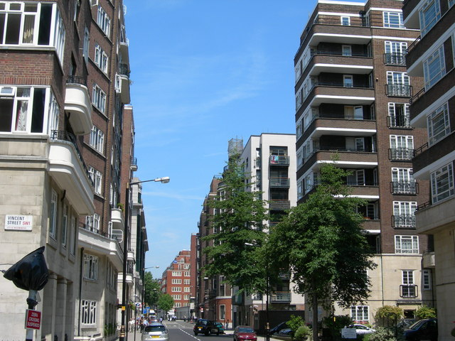 Marsham Street SW1. At junction of Vincent Street, looking towards Horseferry Road.